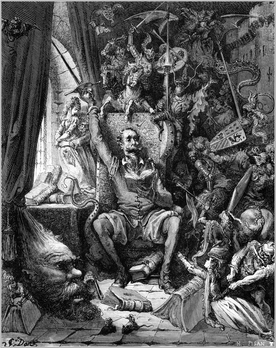 Illustration 1 for Miguel de Cervantes’s “Don Quixote“.